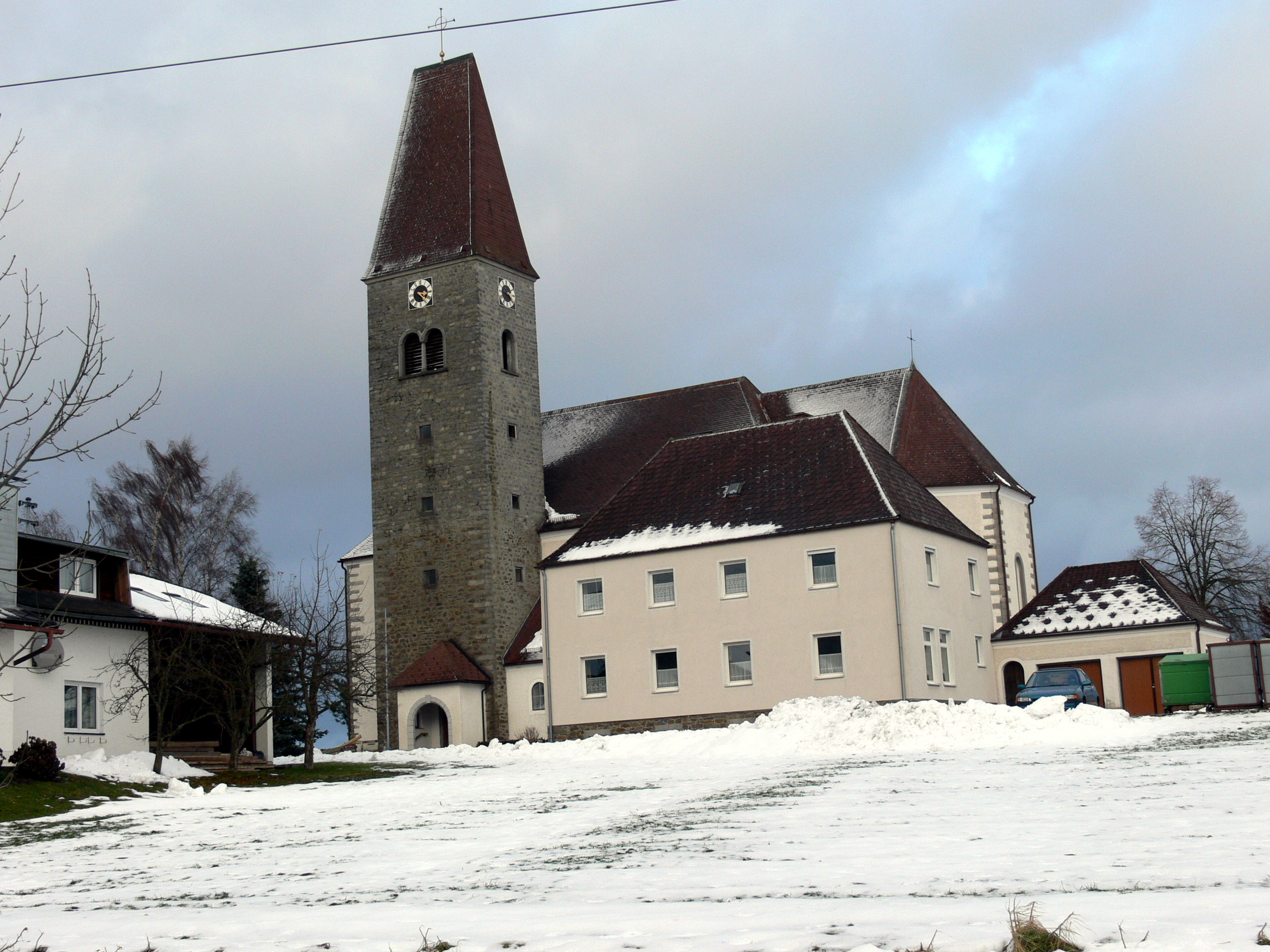 Mary Assumption parish church ( 1953 ) in Pühret ( Neustift i.M., Upper Austria ).